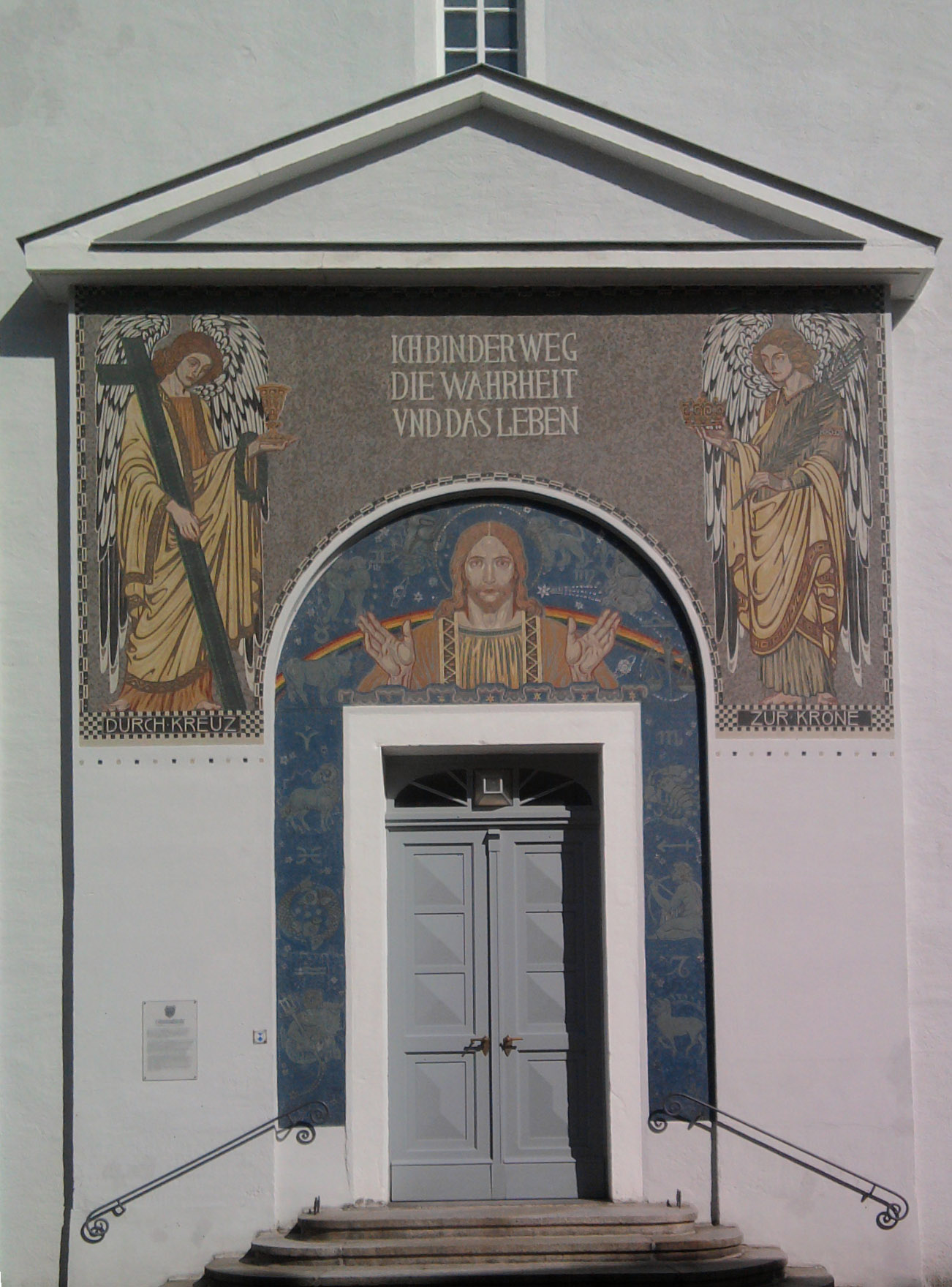 Mosaic by Josef Goller, in cooperation with Villeroy & Boch 1907, at Christuskirche Bischofswerda